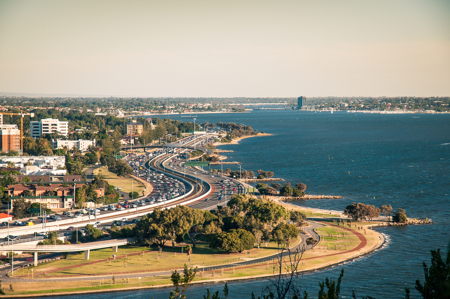 The Kwinana Freeway links Perth and its surrounding suburbs to the city of Mandurah.